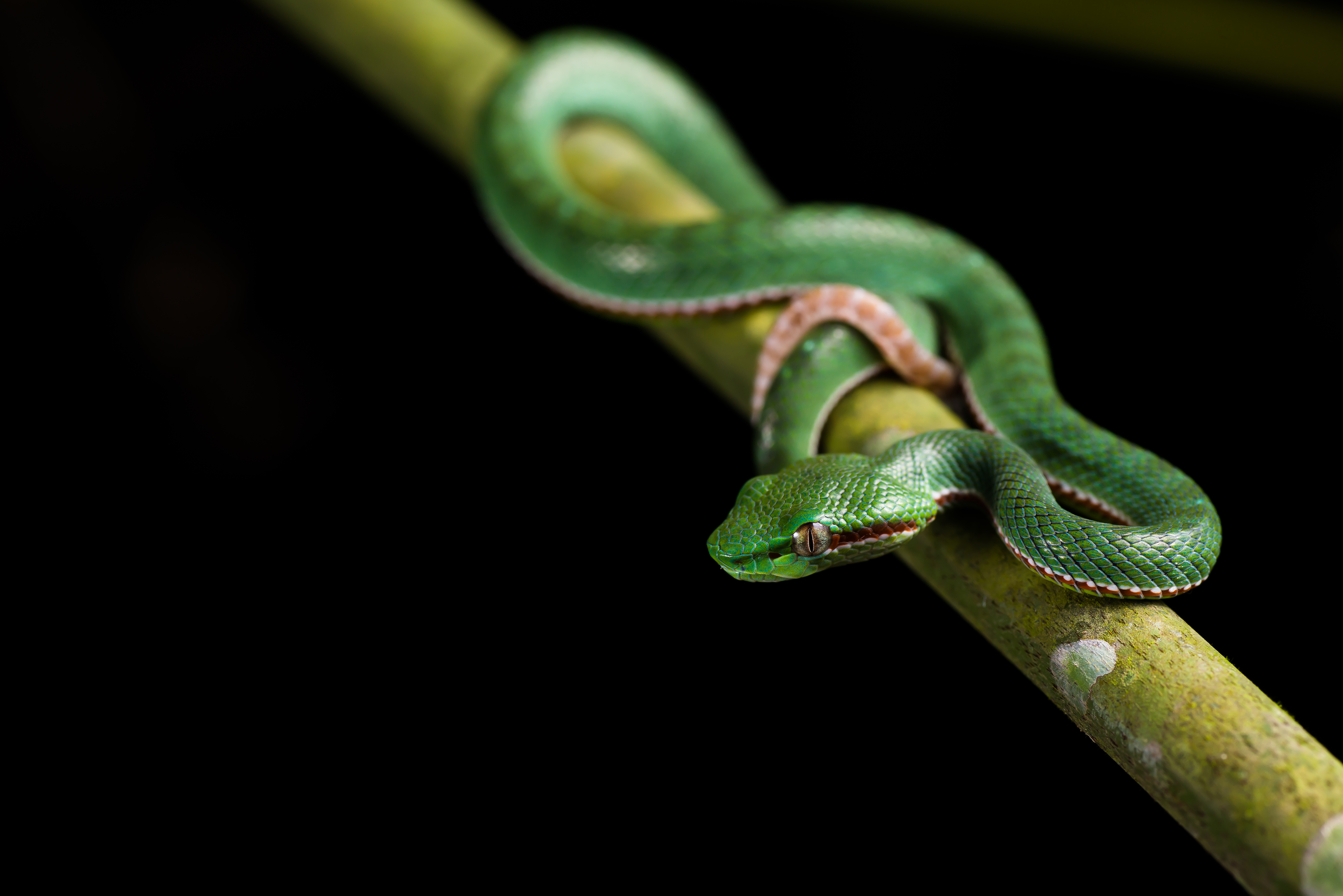 Trimeresurus popeorum, Pope's pit viper (male/juvenile) - Kaeng Krachan National Park, Thailand. This individual is probably the mother as they both were found only 30-40 meters apart; Trimeresurus-popeorum-Pope%27s-pit-viper-(female)-Kaeng-Krachan-National-Park.jpg Photo by Thai National Parks